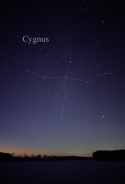 Photography of the constellation Cygnus, the swan